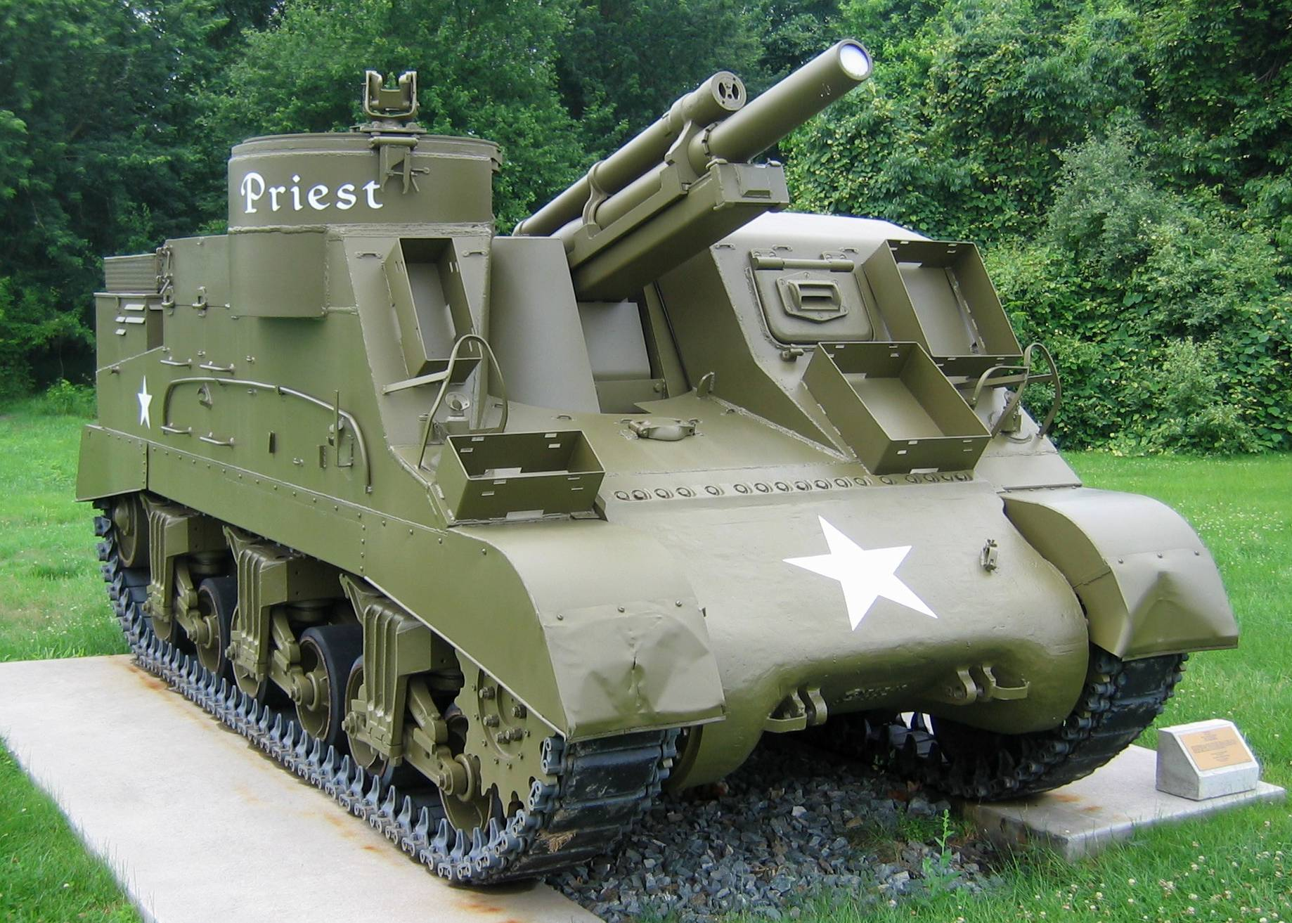 M7 Priest preserved along the entrance road just inside the main gate of Aberdeen Proving Ground, Maryland